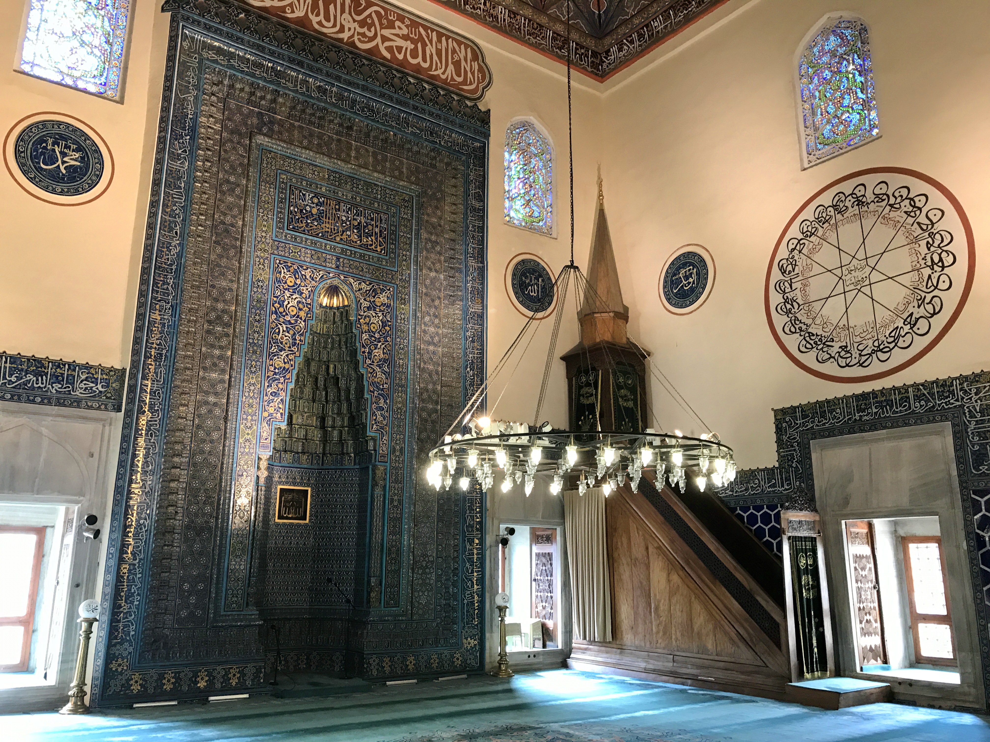 Green Mosque of Bursa, Turkey, 2017. Green Mosque (Turkish: Yeşil Camii, "Yeşil Mosque"), also known as Mosque of Sultan Mehmed I, is a part of the larger complex (a külliye) located on the east side of Bursa, Turkey, the former capital of the Ottoman Turks before they captured Constantinople in 1453. The complex consists of a mosque, türbe, madrasah, kitchen and bath.